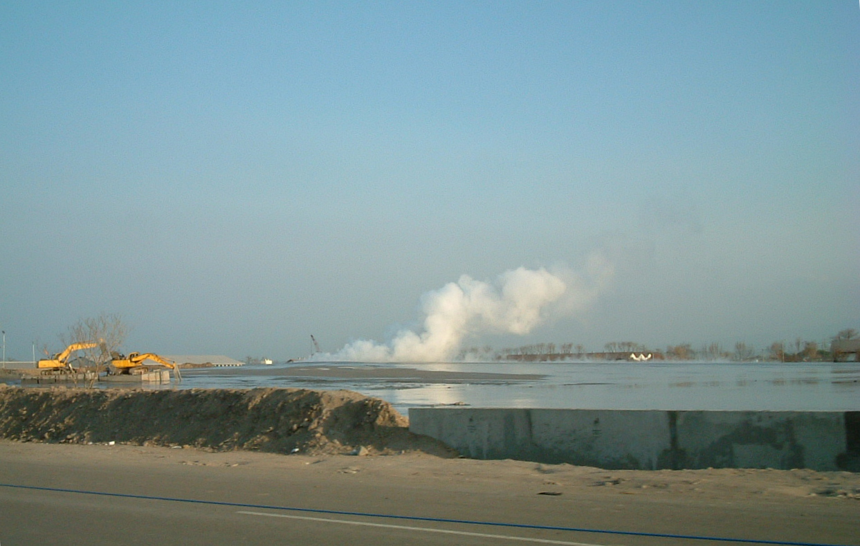 The mud flow, taken by my father in july 2006. The mudlevel is much lower at that time and you can see tractors trying to somehow help the problem. In the background you can see the plume where the mud is flowing out.